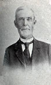 Charles Nelson Clark, US Representative from Missouri